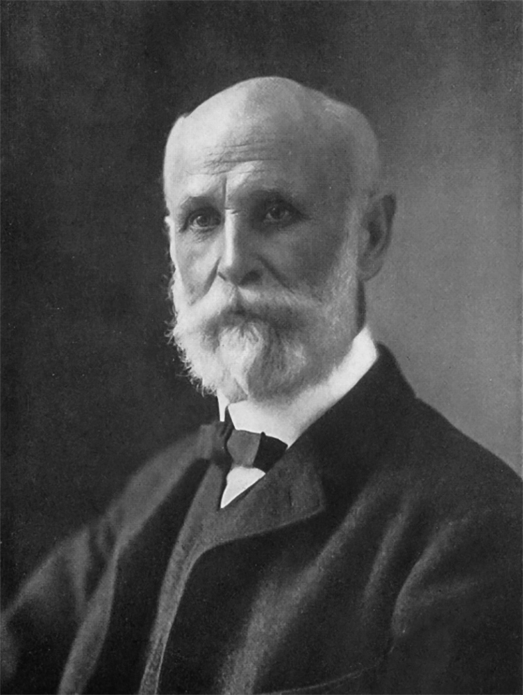 Greene Vardiman Black pioneered dental techniques and invented dental tools and materials